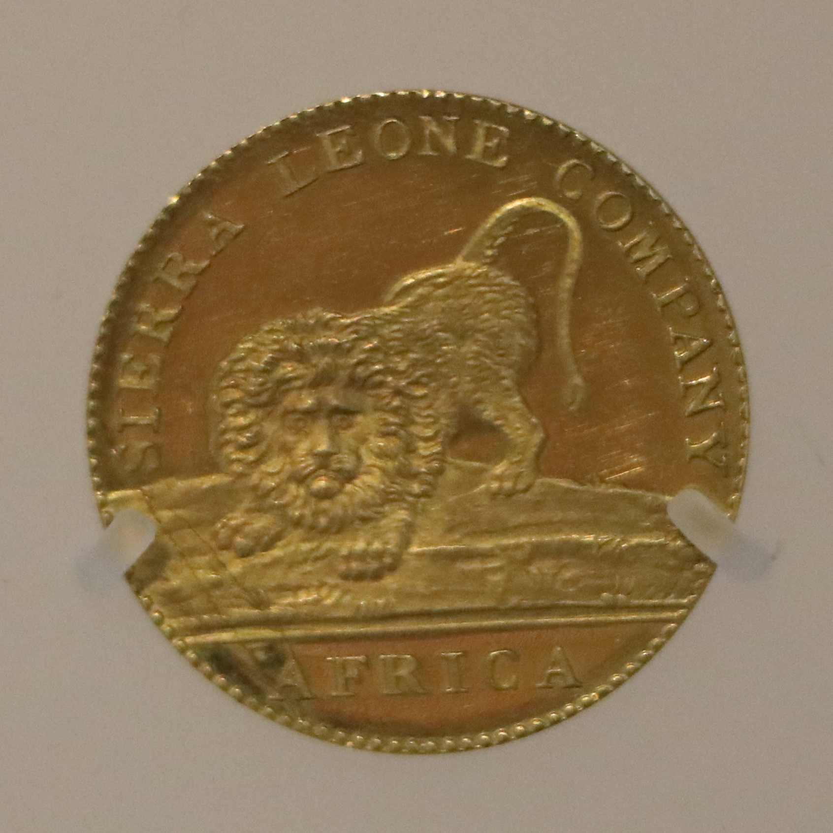 20 cent coin minted for the Sierra Leone Company in 1791